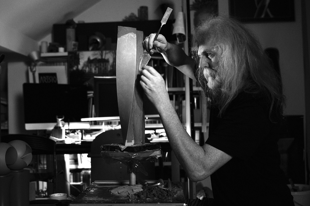 Mr. Beránek working in his atelier on new model of glass sculpture.